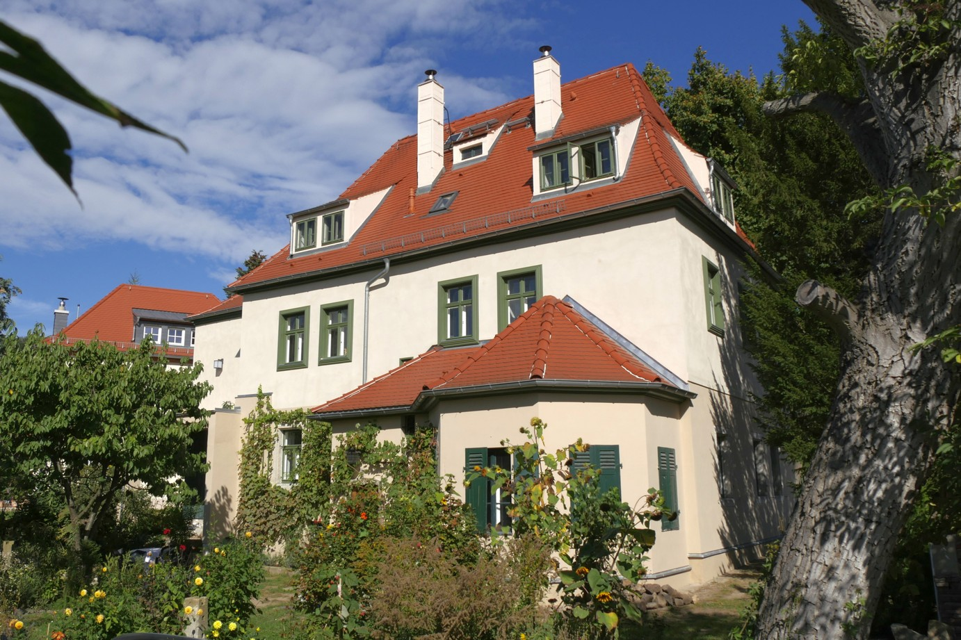 Kyauhaus Radebeul Ansicht Südseite 2016